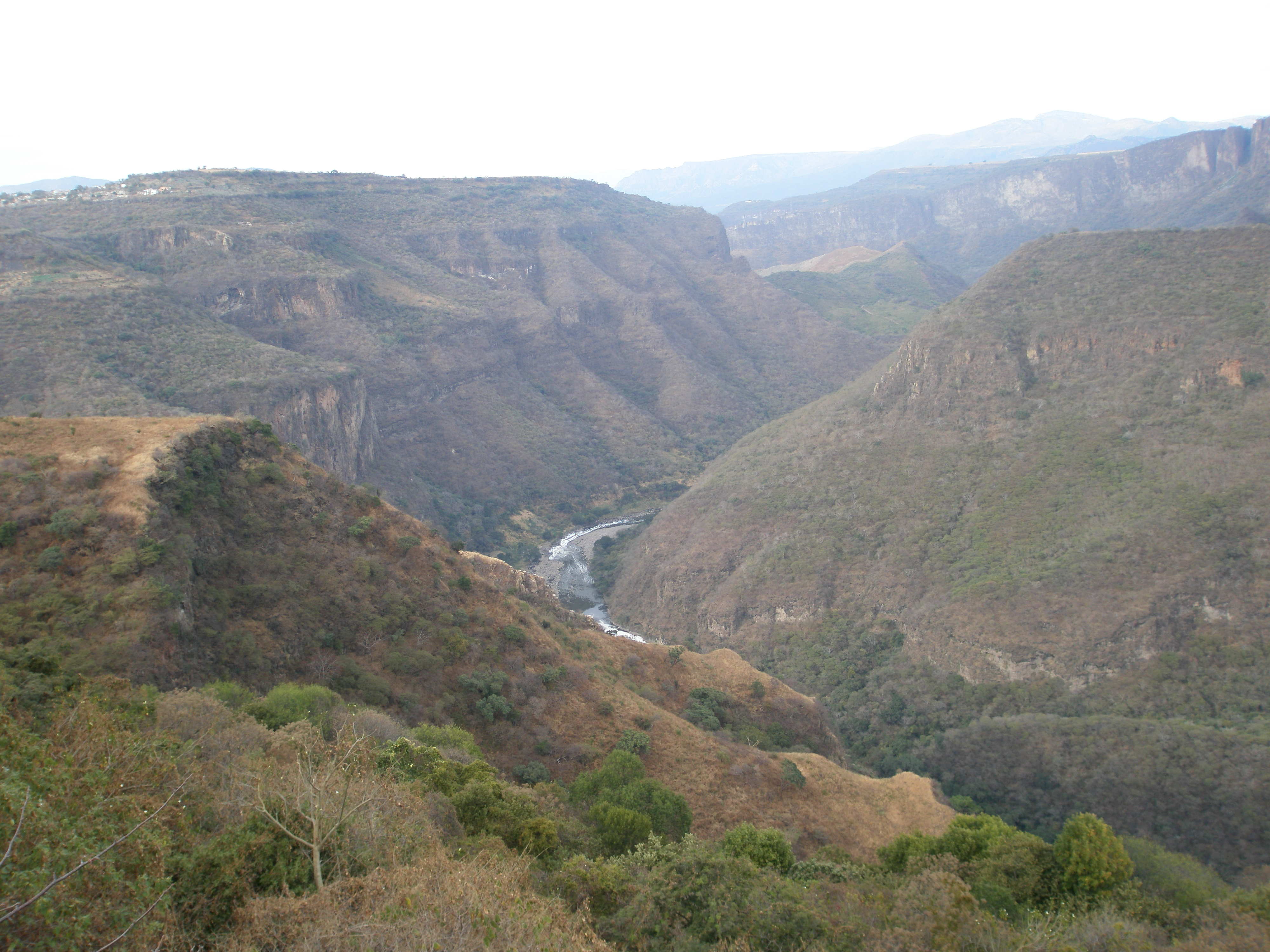 A view of the Huentitan/Oblatos canyon, with the Santiago river at the bottom, in Guadalajara, Jalisco, Mexico